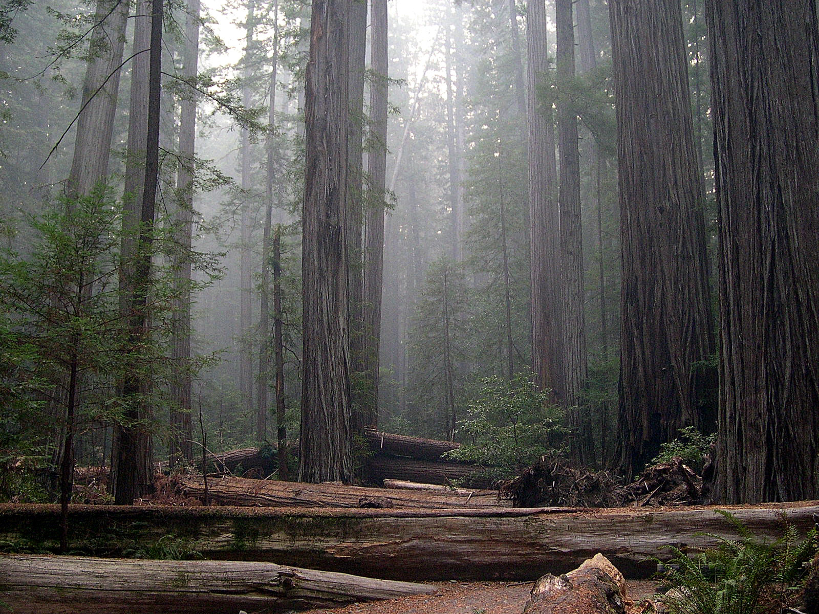 Coast Redwood Sequoia sempervirens. Rockefeller Forest, Humboldt Redwoods State Park, California